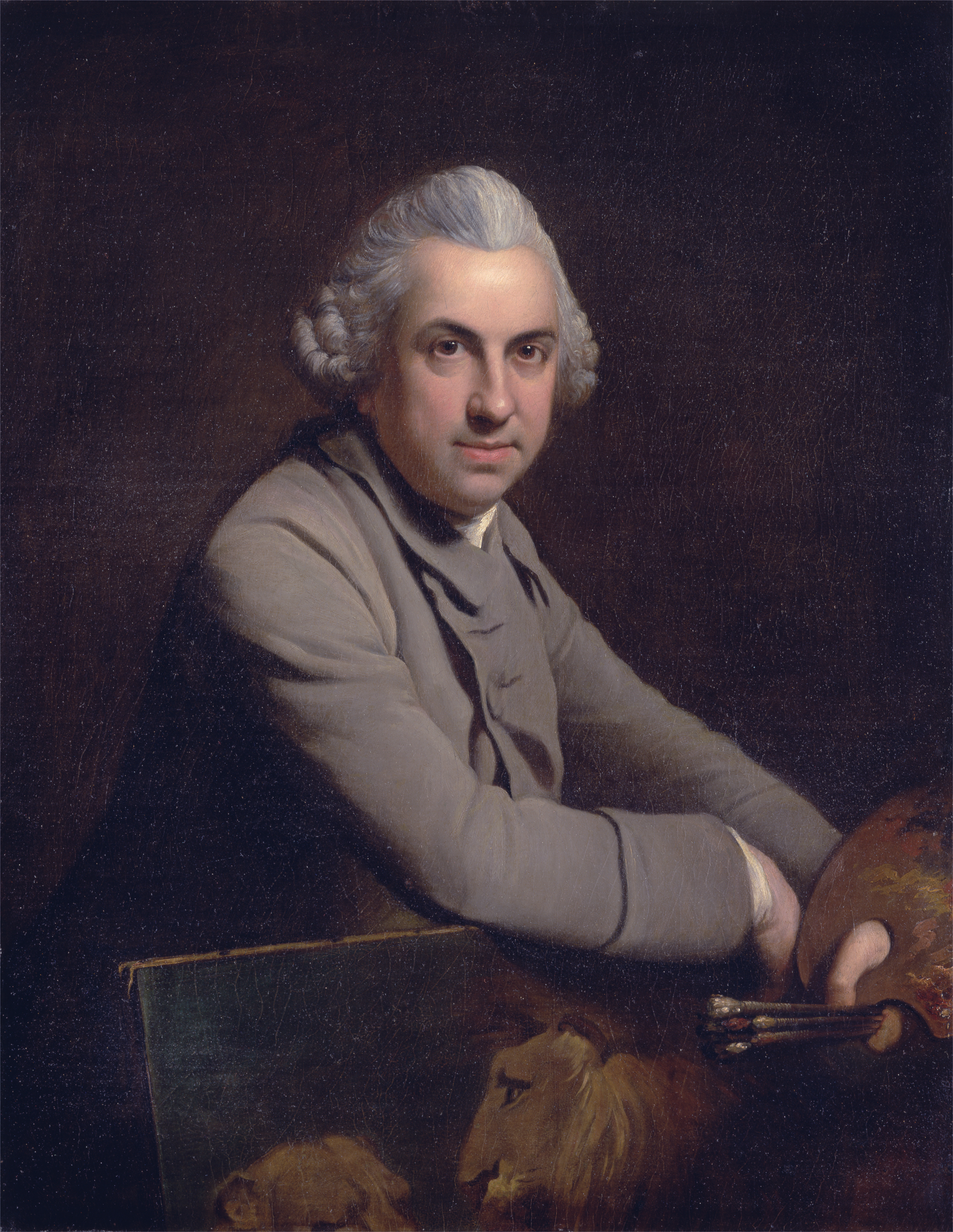 Self-Portrait oil on canvas 90.8 x 70.5 cm